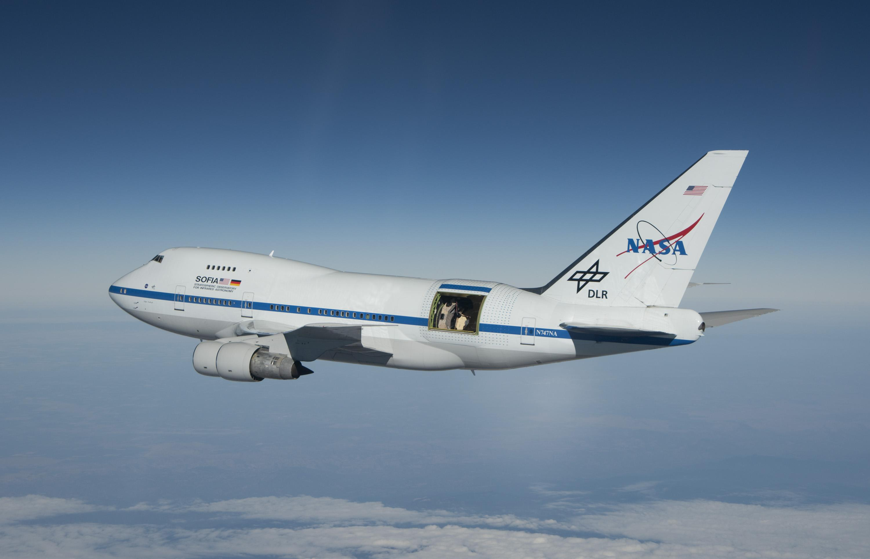 SOFIA Flying Infrared Observatory